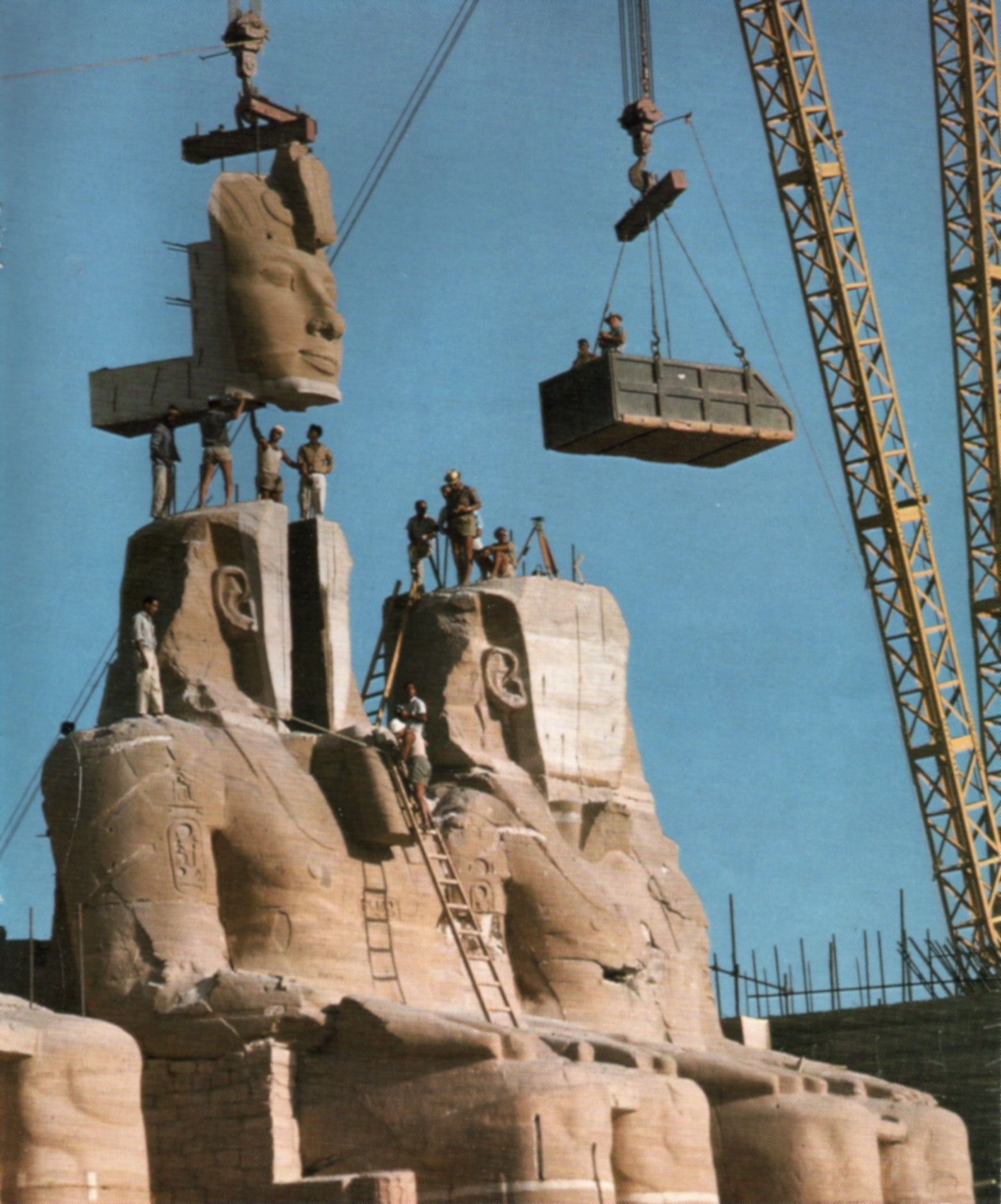 Ramses's face to the "number two" colossal statue is lifted into place, since the great temple is built on the above-lying plateau. Face weighs 19.6 tonnes and concrete reinforcement in the back of 4.58 tons. Between corners, the distance 108 cm. The temple's facade is 33 meters high and 38 m wide. The temple is hewn from the rock.